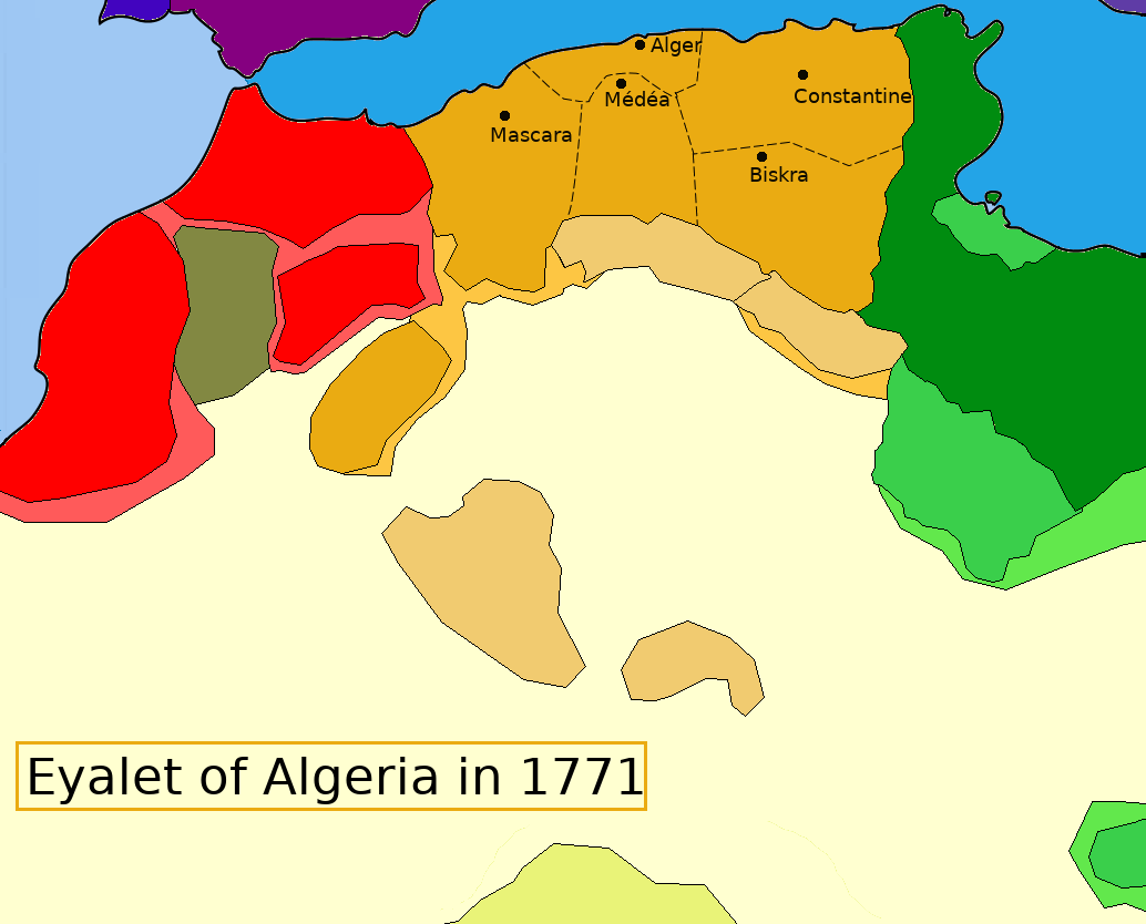 Legends: • In Dark Orange: Elayet of Algeria • In Orange: vassal region or under the influence of the Elayet of Algeria • In Orange Clear: Vassal States of Elayet of Algeria • Black Circle: Capital of the Beyliks • In Dark Green: Ottoman Empire • In Green: Vassal States of the Ottoman Empire • In Light Green: vassal region or under the influence of the Ottoman Empire • In Brown: Bled Es-Siba • In Red: Kingdom of Morocco • In Light Red: Vassal region or under the influence of the Kingdom of Morocco • In Yellow: Region mainly Tuareg • In Light Yellow: predominantly nomadic or tribal regions of the Sahara •